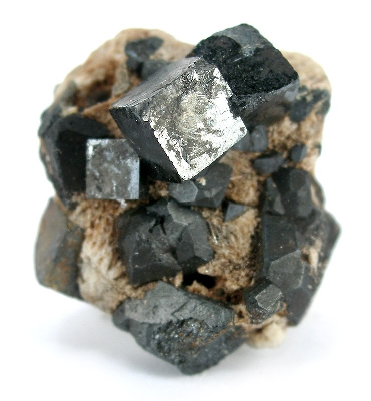 Perovskite Locality: Magnet Cove, Hot Spring County, Arkansas, USA (Locality at ) Size: 2.3 x 2.1 x 2.0 cm. A small specimen but with SUPERB 6-7mm crystals of perovskite on matrix. They are sharp as you could wish for the locality. Ex. American Museum of Natural History, Clarence Bement collection, donated in 1910.